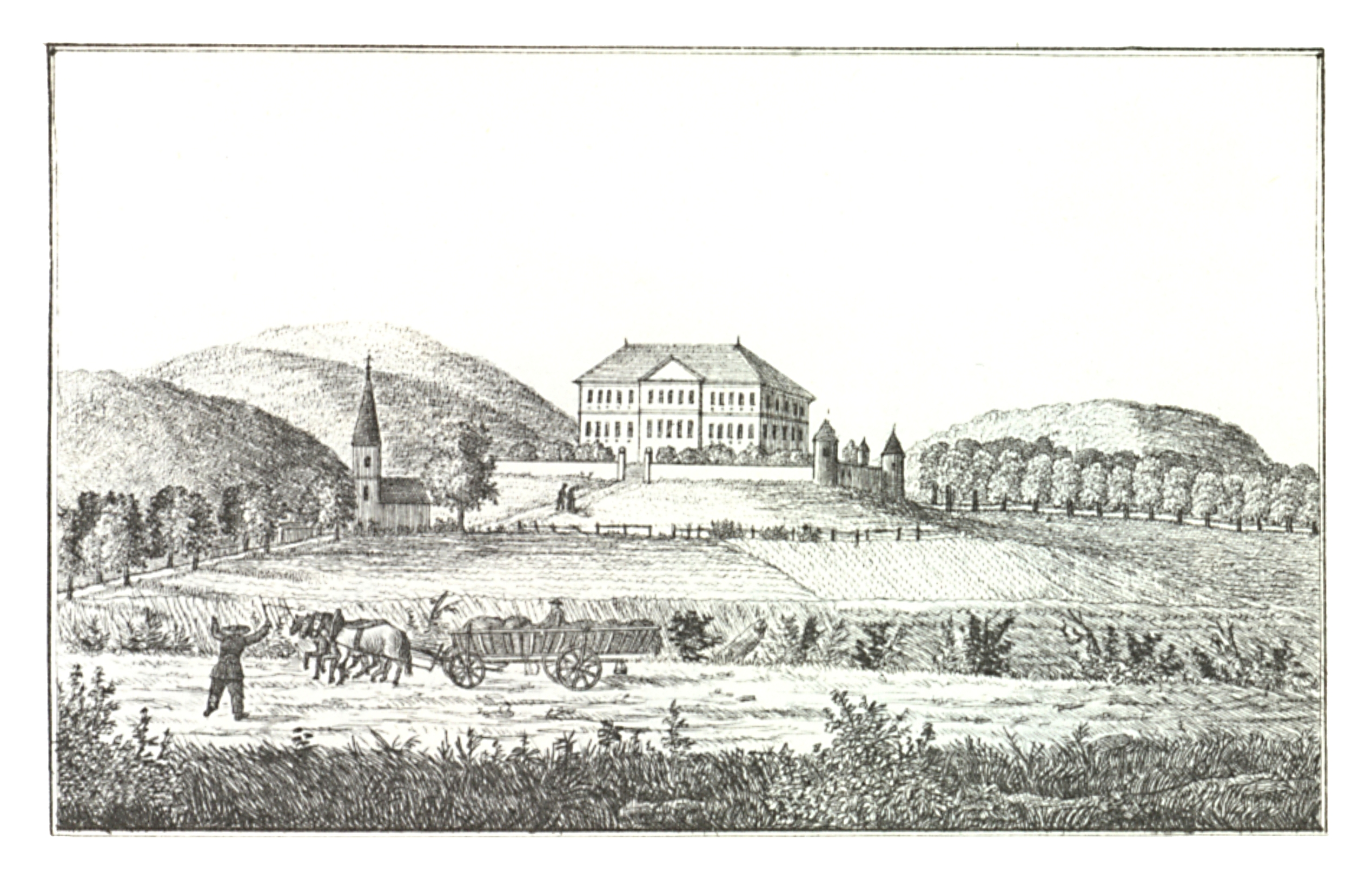 J. F. Kaiser - lithographirte Ansichten der Steyermärkischen Städte, Märkte und Schlösser Graz, 1825 Joseph Franz Kaiser (1786–1859) Alternative names J. F. KaiserDescriptionAustrian printer and editorDate of birth/death 11 March 1786 19 September 1859Location of birth/death Graz (Styria) GrazAuthority control : Q1499963 VIAF: 30629353 ISNI: 0000 0000 3083 0153 LCCN: n87141671 GND: 129880159 NLP: A24960305 WorldCat creator QS:P170,Q1499963 Scanprojekt Community Projektbudget 2012 This scan or this PDF-file was created within the GLAM-project Bookscanning, supported by Wikimedia Germany and Wikimedia Austria as a part of the community-project to capture books, documents and pictures which are not eligible to copyright or for which the copyright has expired. This document describes or depicts an object which is located in Austria today. Send requests for uncompressed scans to Hubertl. This work is in the public domain in its country of origin and other countries and areas where the copyright term is the author's life plus 100 years or less. You must also include a United States public domain tag to indicate why this work is in the public domain in the United States. This file has been identified as being free of known restrictions under copyright law, including all related and neighboring rights.